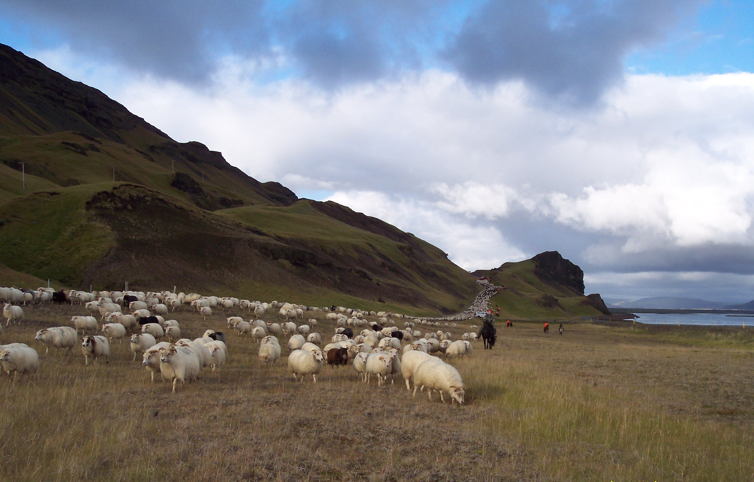 A flock of sheep in Iceland, driven from the highlands down to a sorting pen. In the background is Þjórsárdalur valley and Gaukshöfði. Author: Jóna Þórunn Ragnarsdóttir. Taken in the fall of 2004.